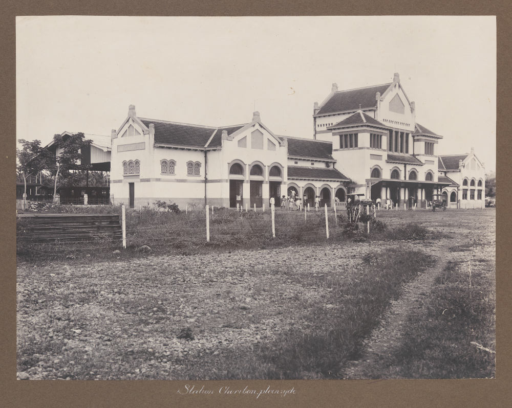 Title: Station Cheribon, pleinzyde Creator: Unknown Date: ca. 1913-1916 Part Of: Aanleg Cheribon - Kroja, Java Place: Cirebon, West Java, Indonesia Physical Description: 1 photographic print; gelatin silver, part of 1 volume (98 gelatin silver prints); 22 x 29 cm on 36 x 43 cm mount File: ag1982_0070x_05_opt.jpg Rights: Please cite DeGolyer Library, Southern Methodist University when using this file. A high-resolution version of this file may be obtained for a fee. For details see the web page. For other information, . For more information and to view the image in high resolution, see: View the Europe, Asia, and Australia: Photographs, Manuscripts, and Imprints Collection